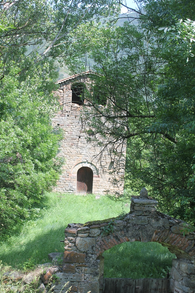 Sant Martí de Víllec